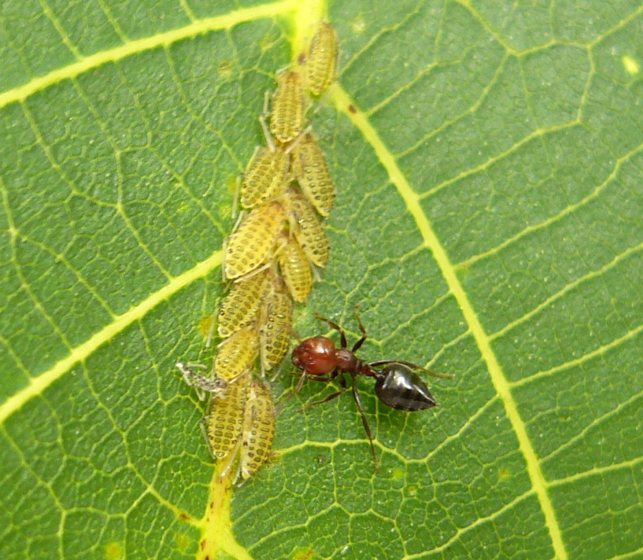 ant and plant louses